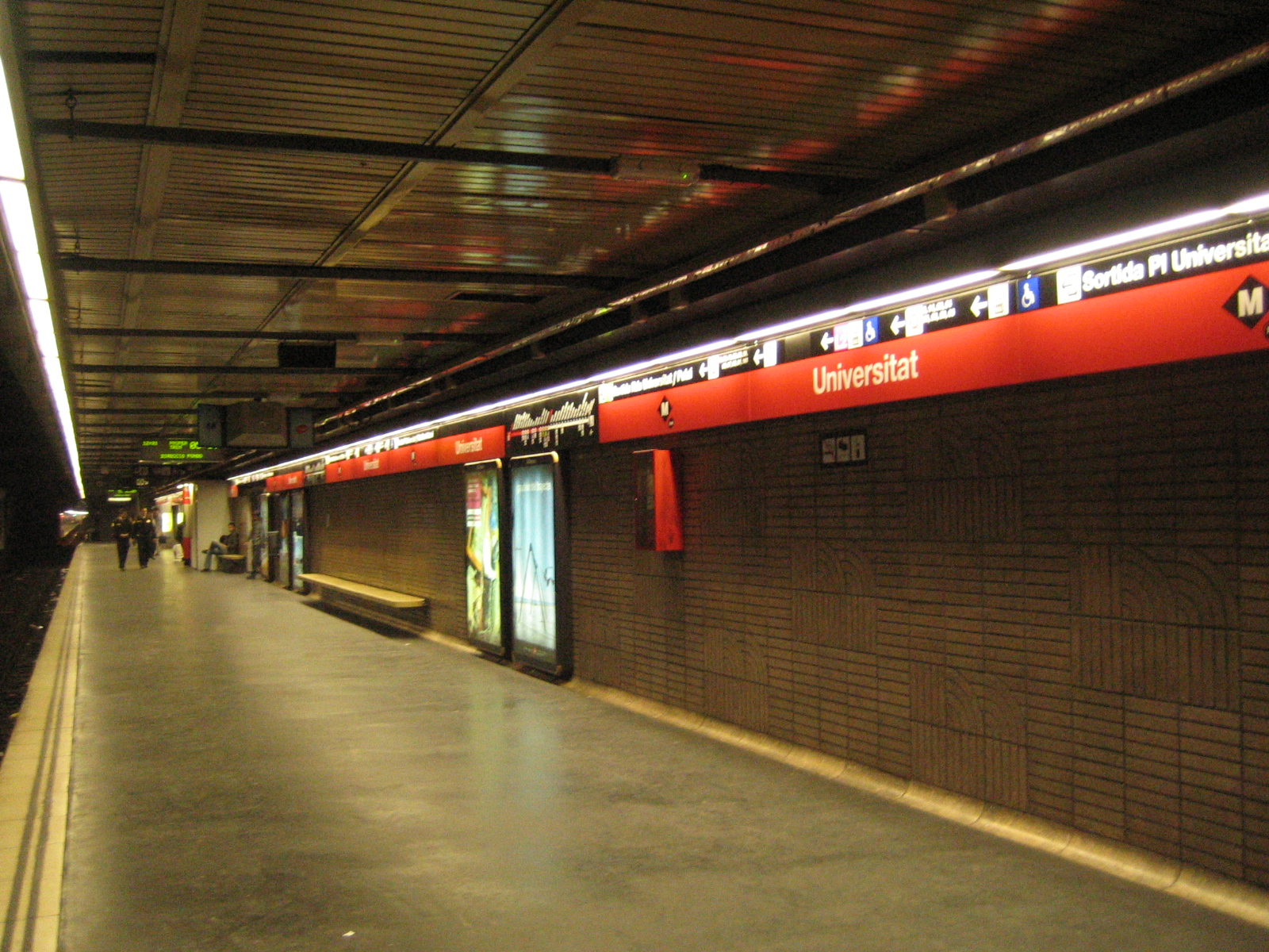 Barcelona's metro station Universitat